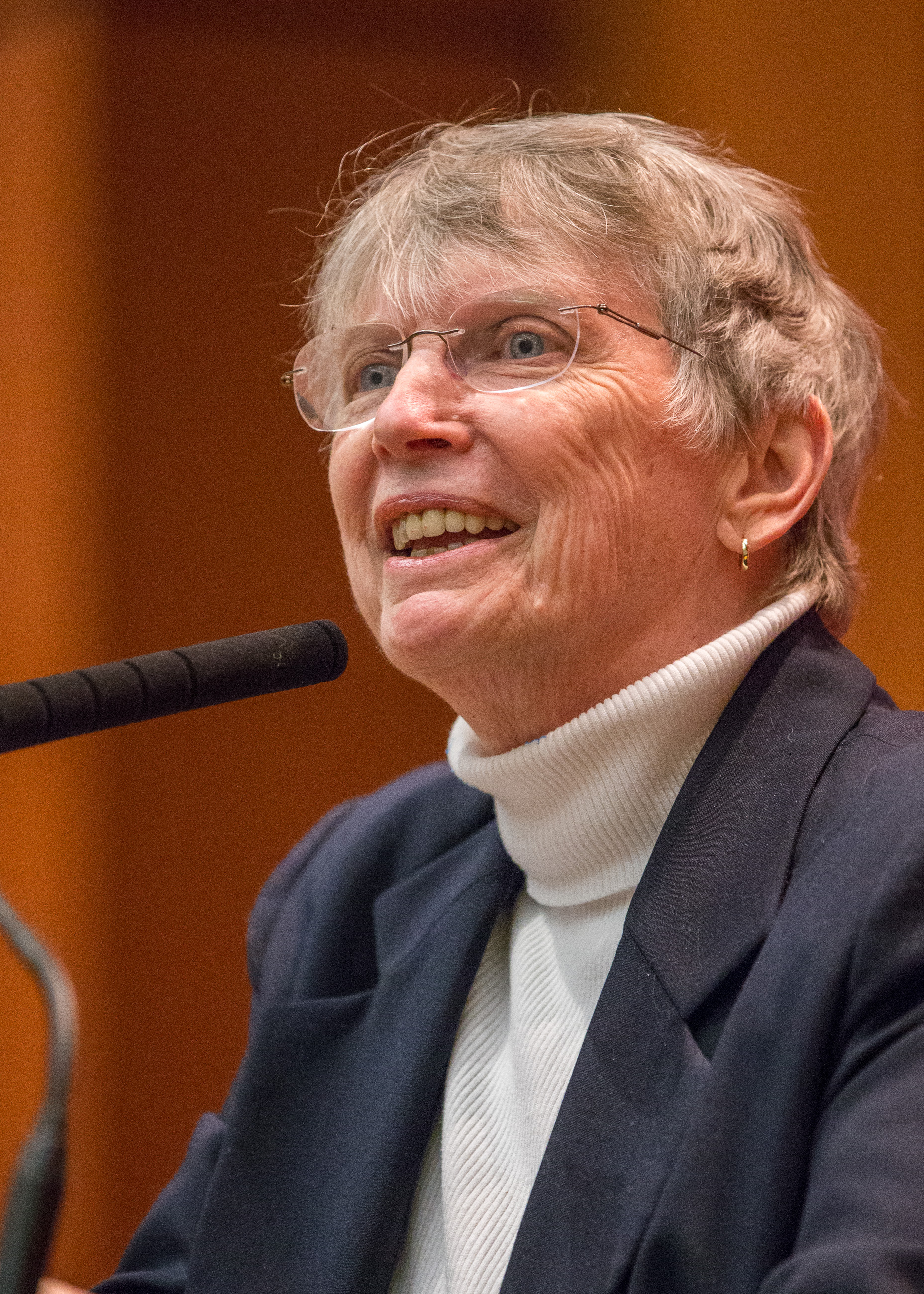 Lois Lowry, author of Number the Stars and The Giver, in 2014